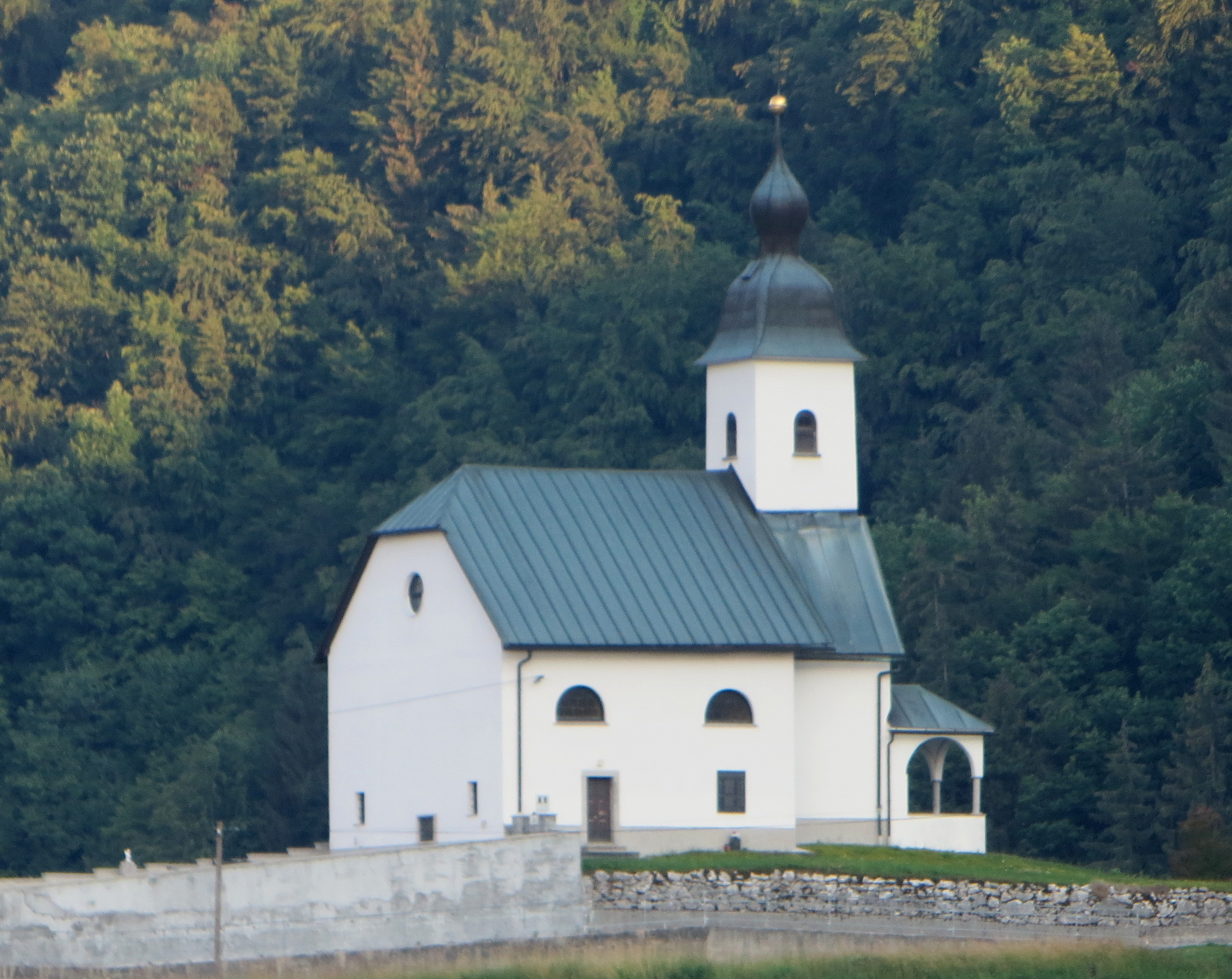 Holy Cross Church in Križevska Vas, Municipality of Dol pri Ljubljani, Slovenia